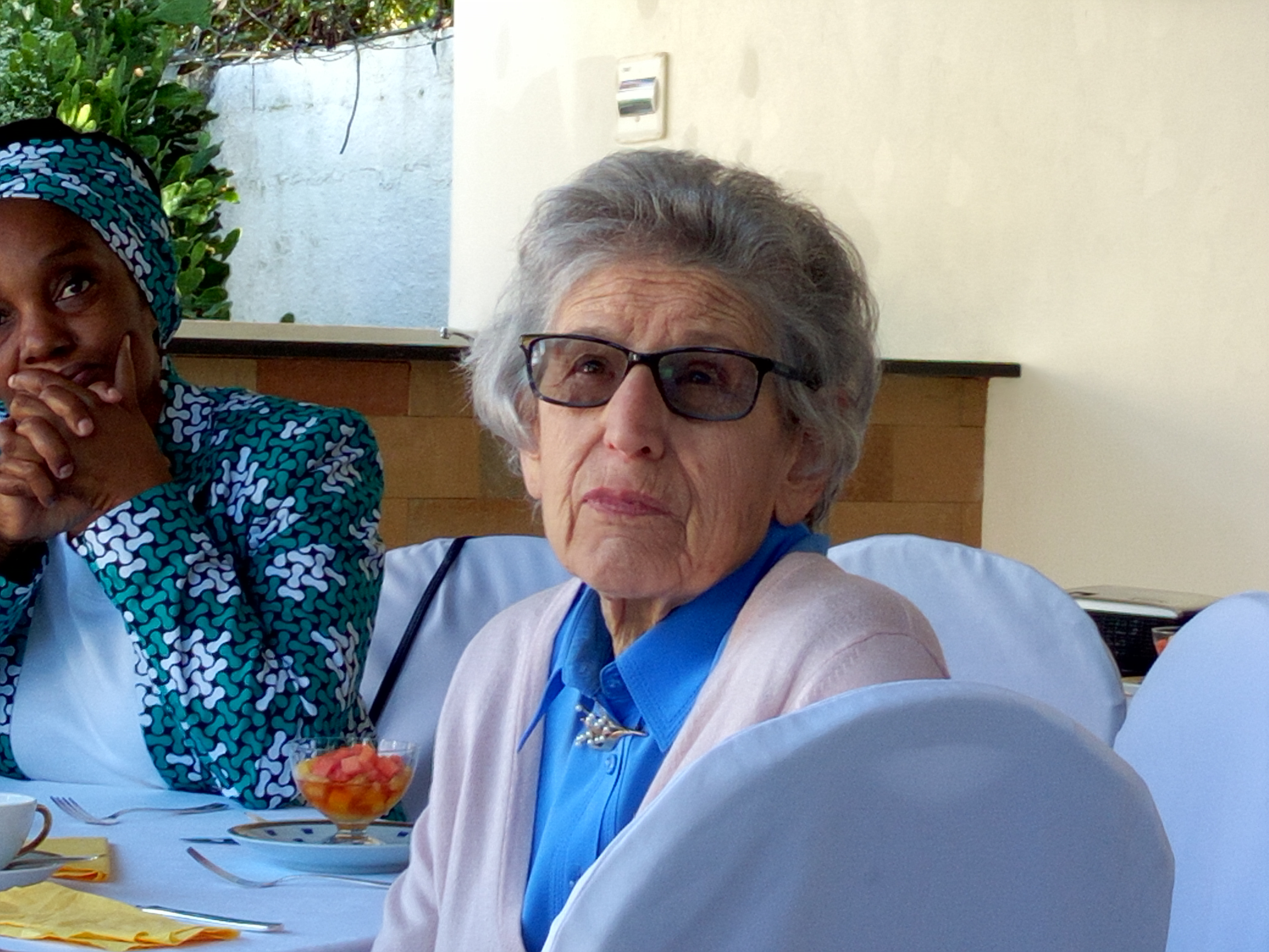 Cynthia Zukas at the Swedish Embassy breakfast with Zambian Wikipedians